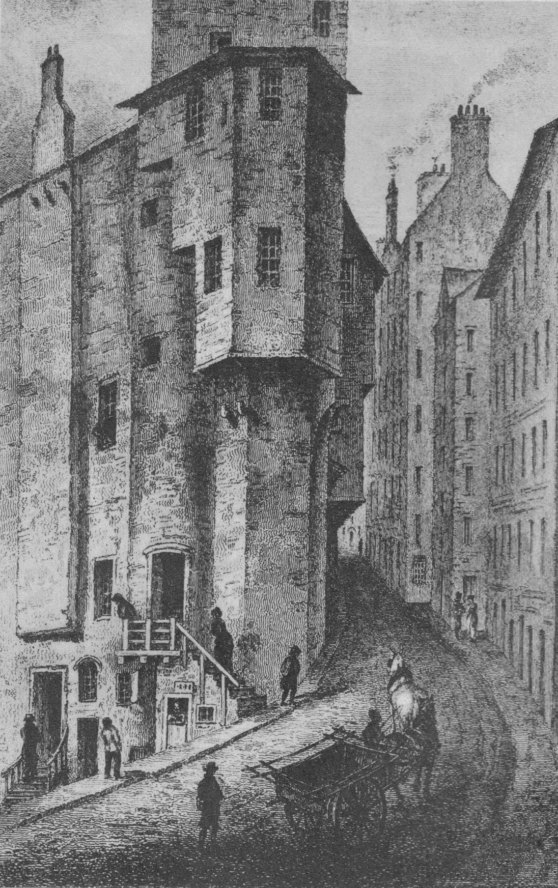 Major Weir's House in the West Bow, Edinburgh, from Walter Scott's 'Letters on Demonology and Witchcraft' (1830)